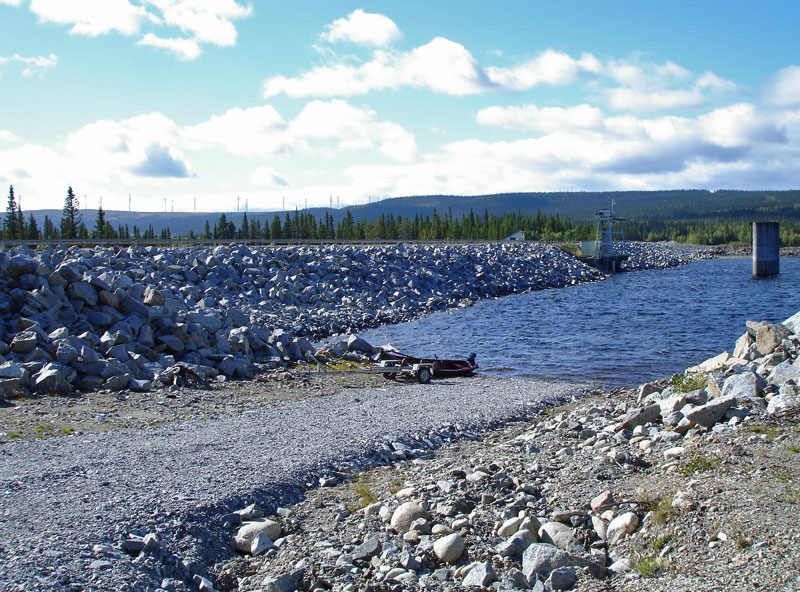 The dam in lake Storjuktan, viewed from the eastern shore.